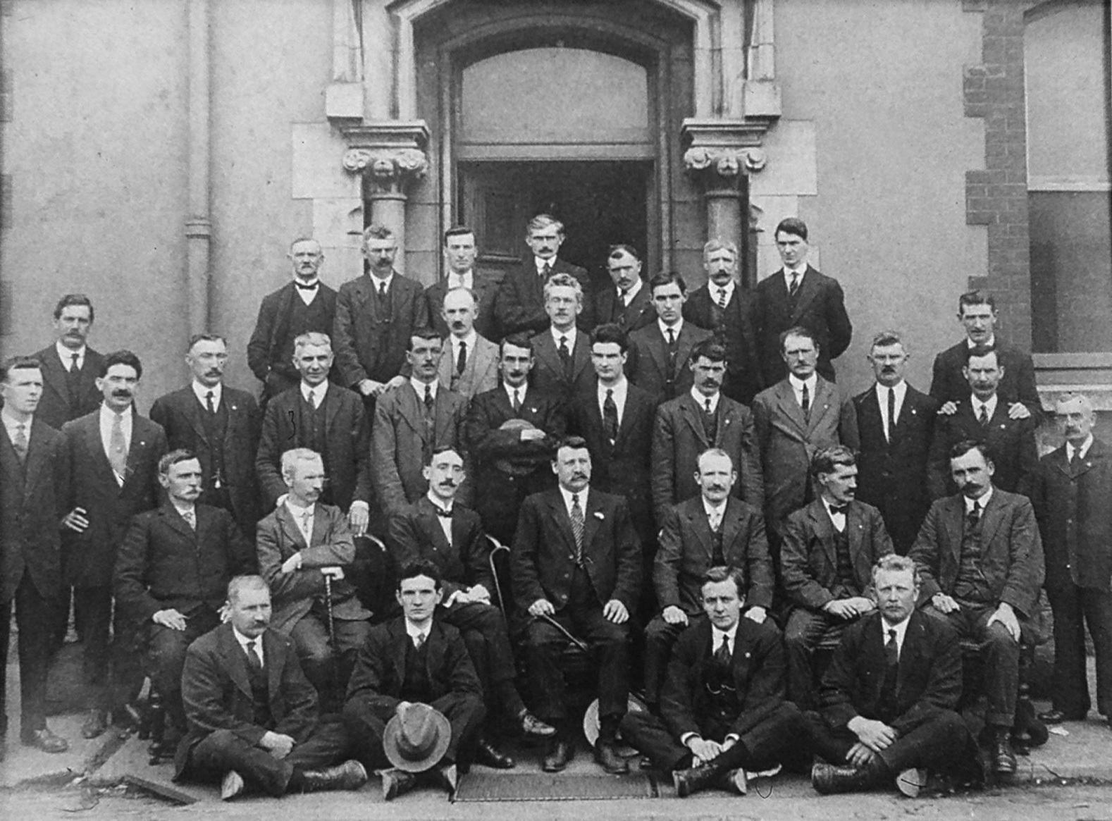 Photograph of Members of the 1919 Limerick Soviet Back row: T McDonnell, J Carr, J Coffey, M Ryan, M Bennis, D O’Reilly, M Gabbett. Fourth row: F Whelan, M Daly, T Bourke, J Roberts, J McQuaine. Third row: P O’Sullivan, W O’Brien, G Dunne, P Hehir, J Flynn, B Rea, L Kelliher, D O’Loughlin, J Hogan, C Johnson, M Reddan, J O’Keeffe. Seated: D Griffin, R P O’Connor, J Casey, J Cronin, A Walsh, J O’Connor, P Dowling. Front: J Buckner, C Carey, M Browne, J Leahy